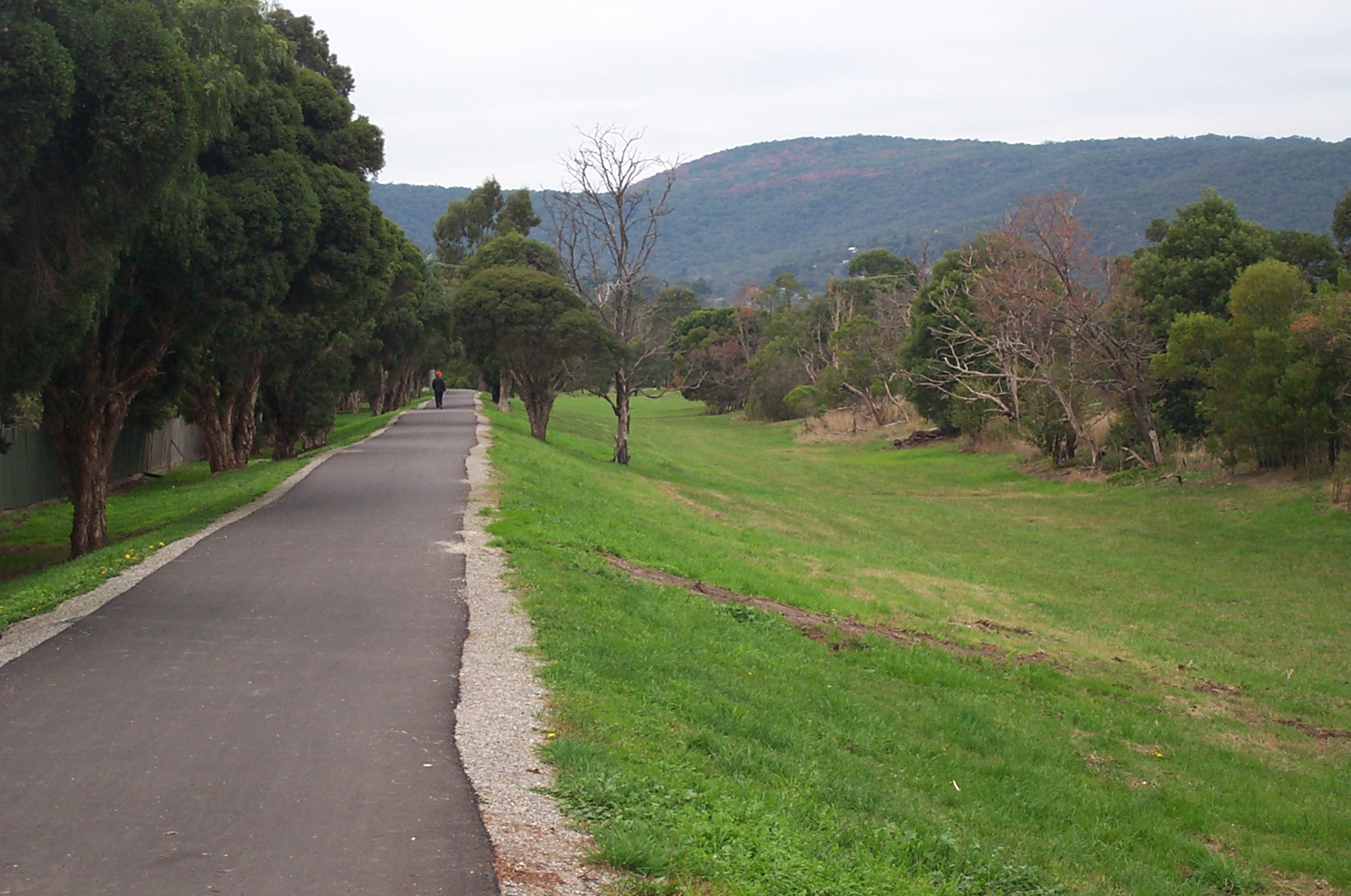 View of the Ferny Creek Trail in Ferntree Gully, Victoria, Australia.